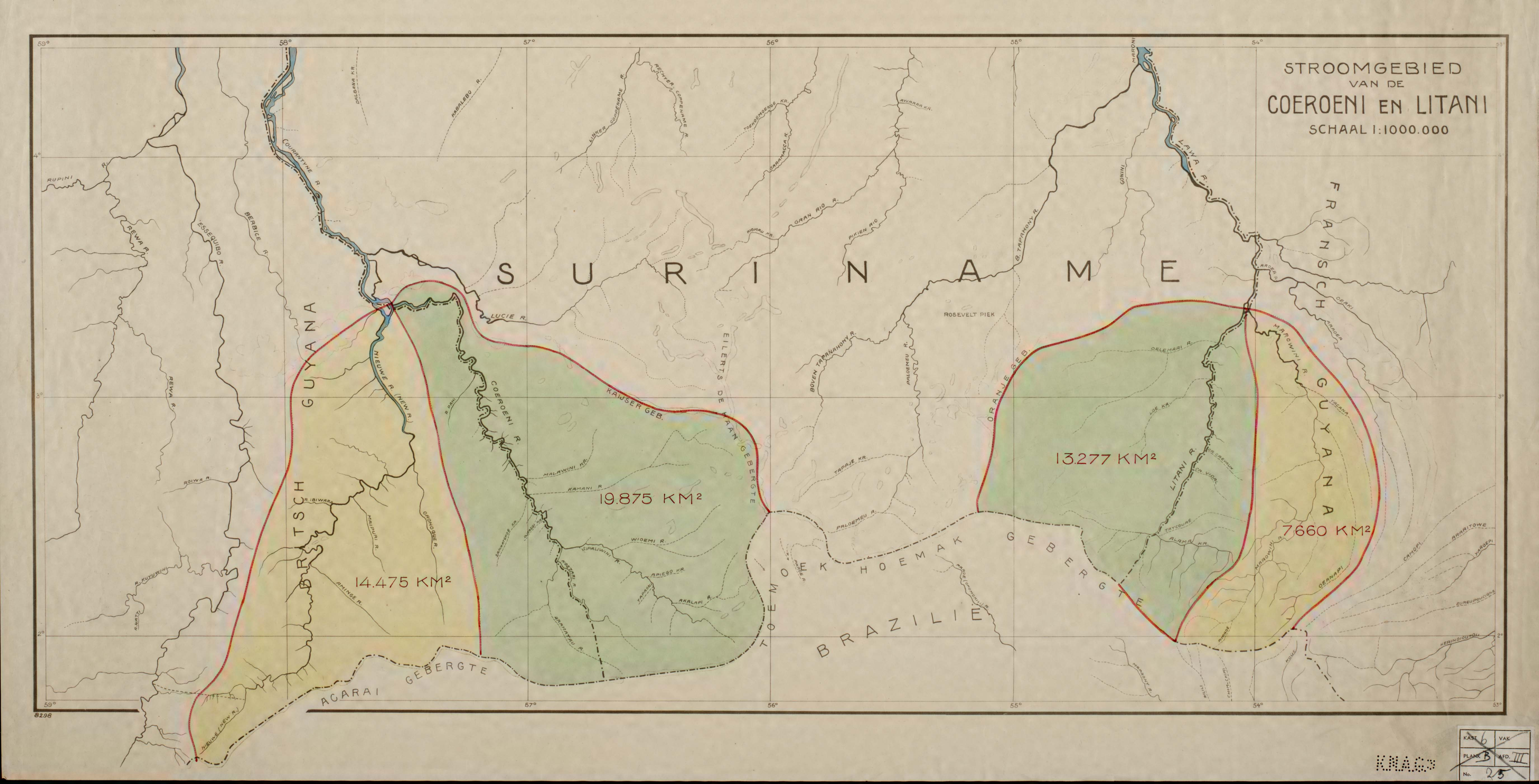 Map showing the border disputes of Suriname